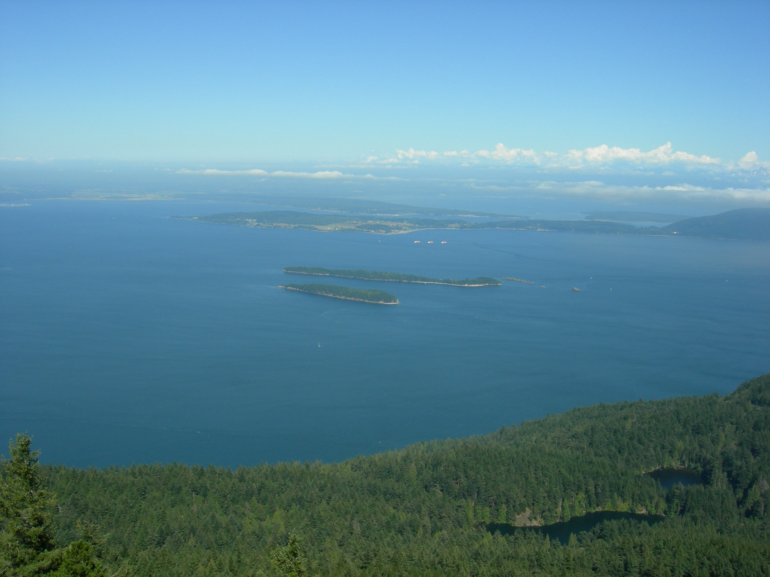 View from observation tower atop Mt. Constitution, Moran State Park, Orcas Island, Washington toward Clark Island; several smaller islands are also visible. The twin lakes in Moran State Park can be seen at right.